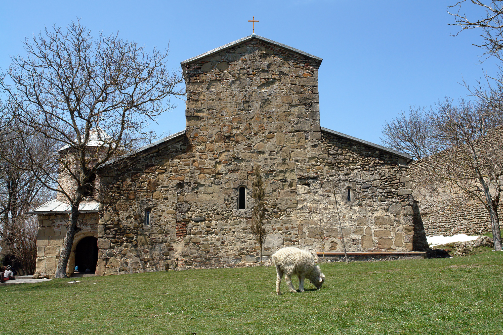 Zedazeni Monastery in Georgia